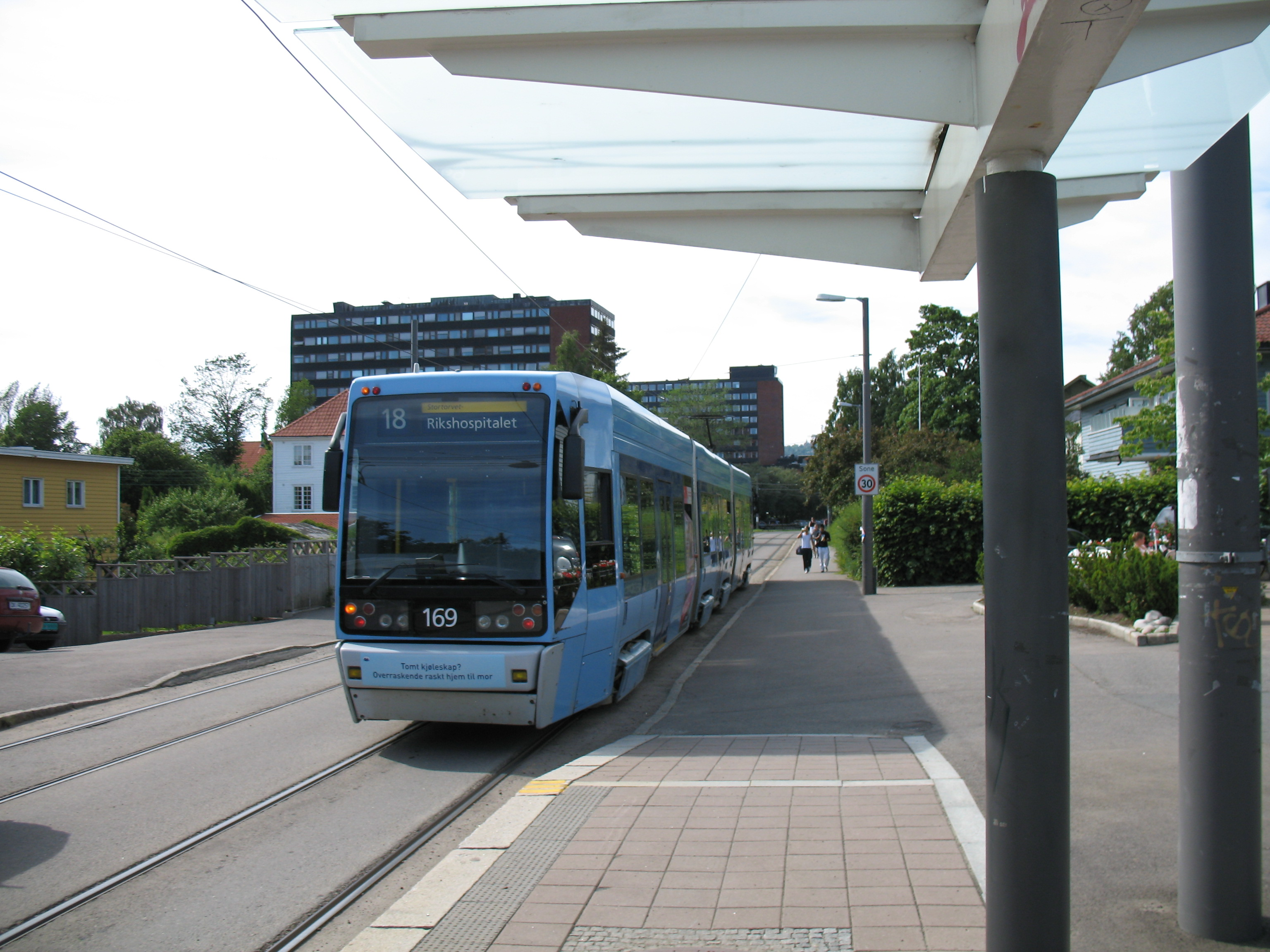 A tram at John Collett's square in Oslo, Norway.